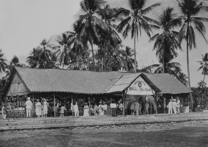 The stone foundation for the hospital in Surakarta, Java.